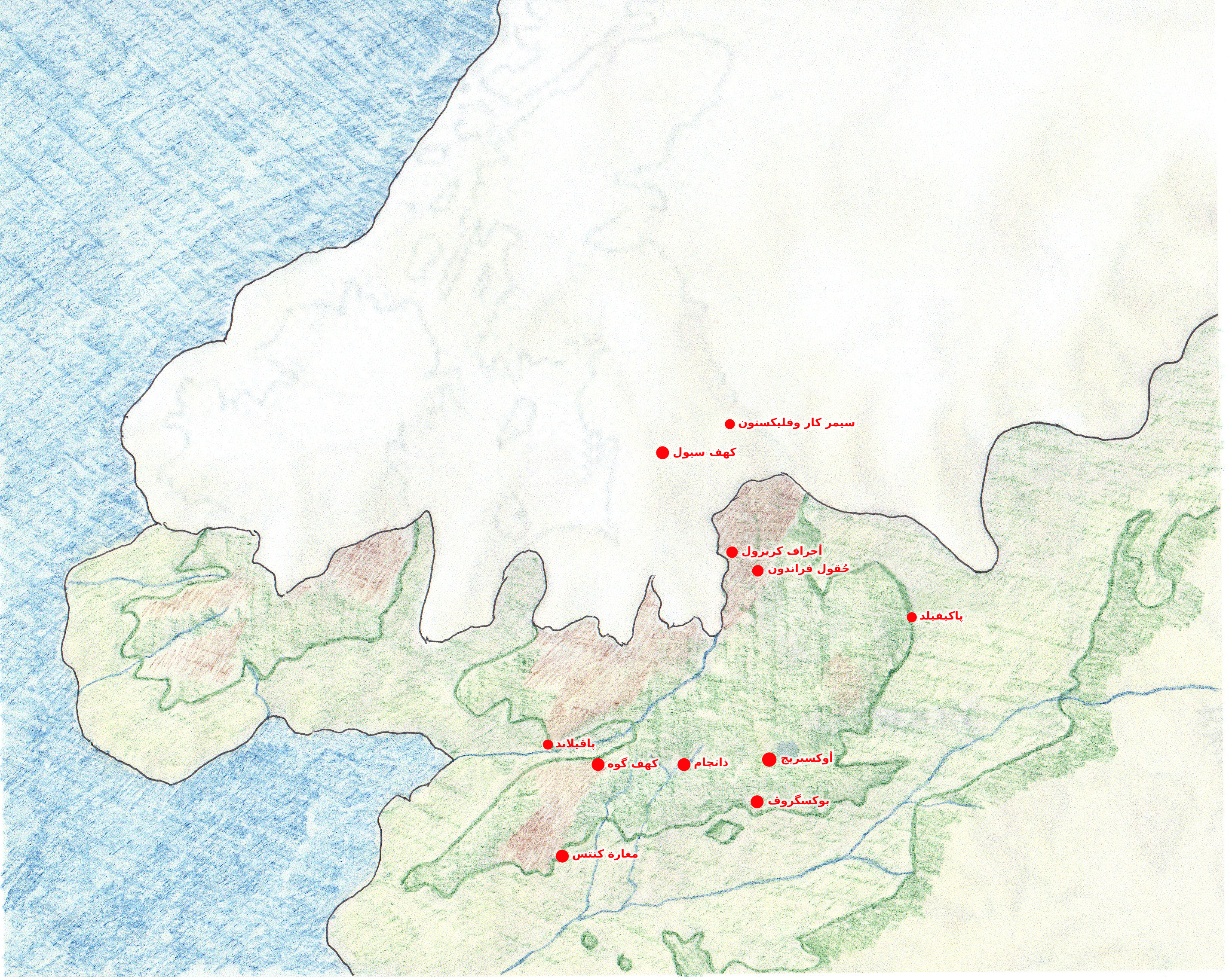 Map of the approximate locations of archaeological sites in the prehistoric Briton peninsular where horse remains have been uncovered dating from 700,000 BC to close of the last Ice Age